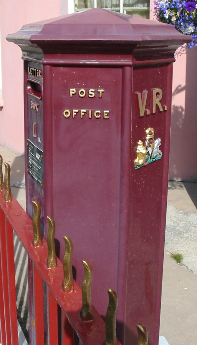 Victorian post box in Guernsey, claimed to be oldest surviving in British Isles